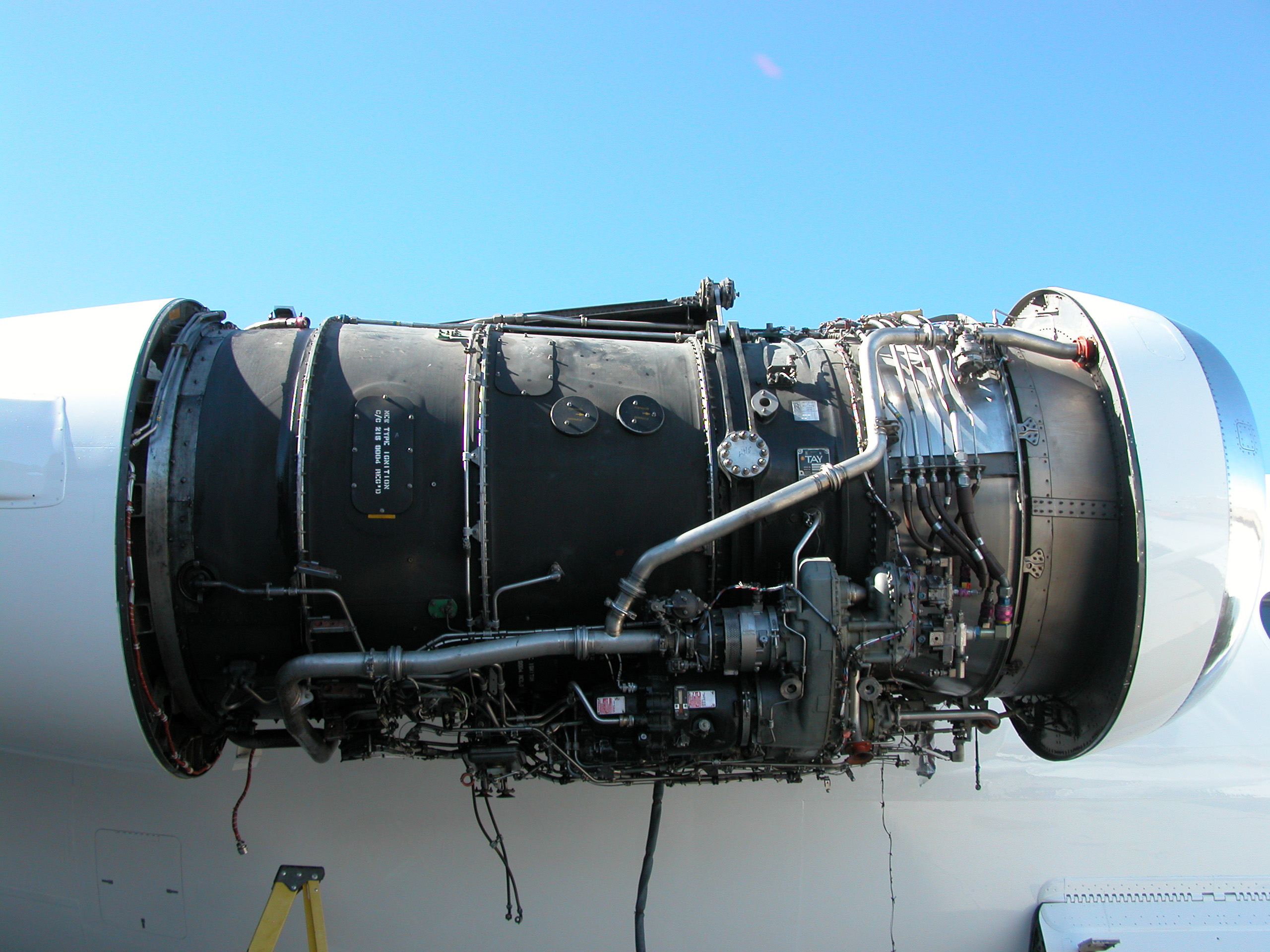 Rolls Royce Tay 650 installed on a Fokker F100